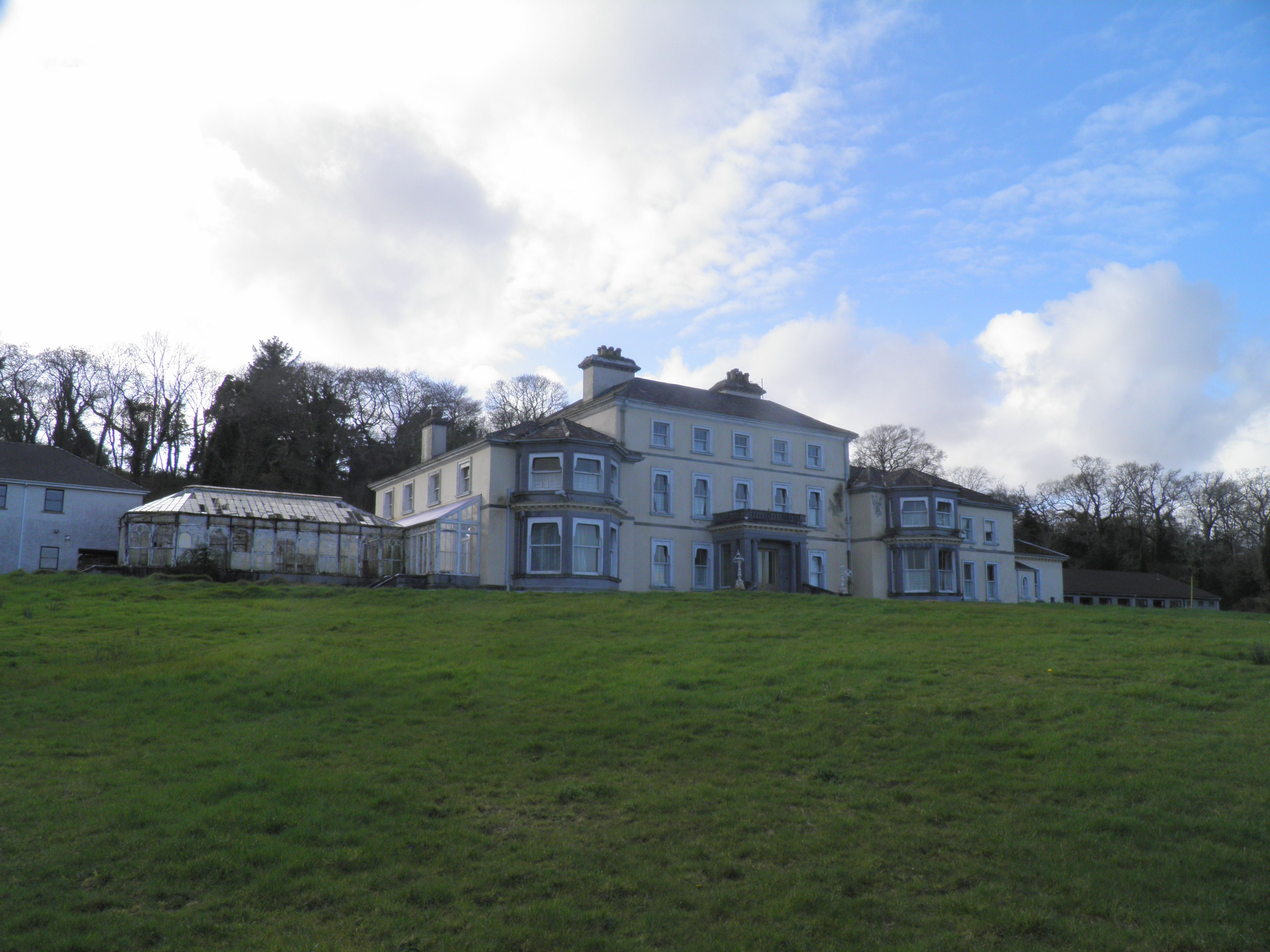 Cahercon House former site of secondary school. Near Kildysart, County Clare, Republic of Ireland